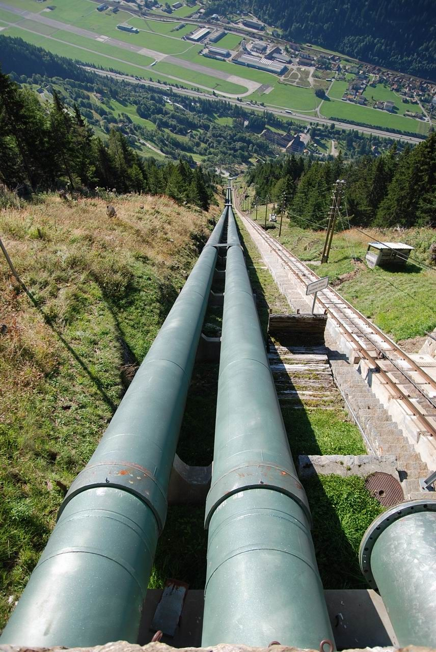 This is the maximum track inclination of the Ritom funicular, which runs along the Penstock of the Ritom Hydroelectric Generating Plant. The engine house of the generating plant can be seen on the bottom of the penstock.